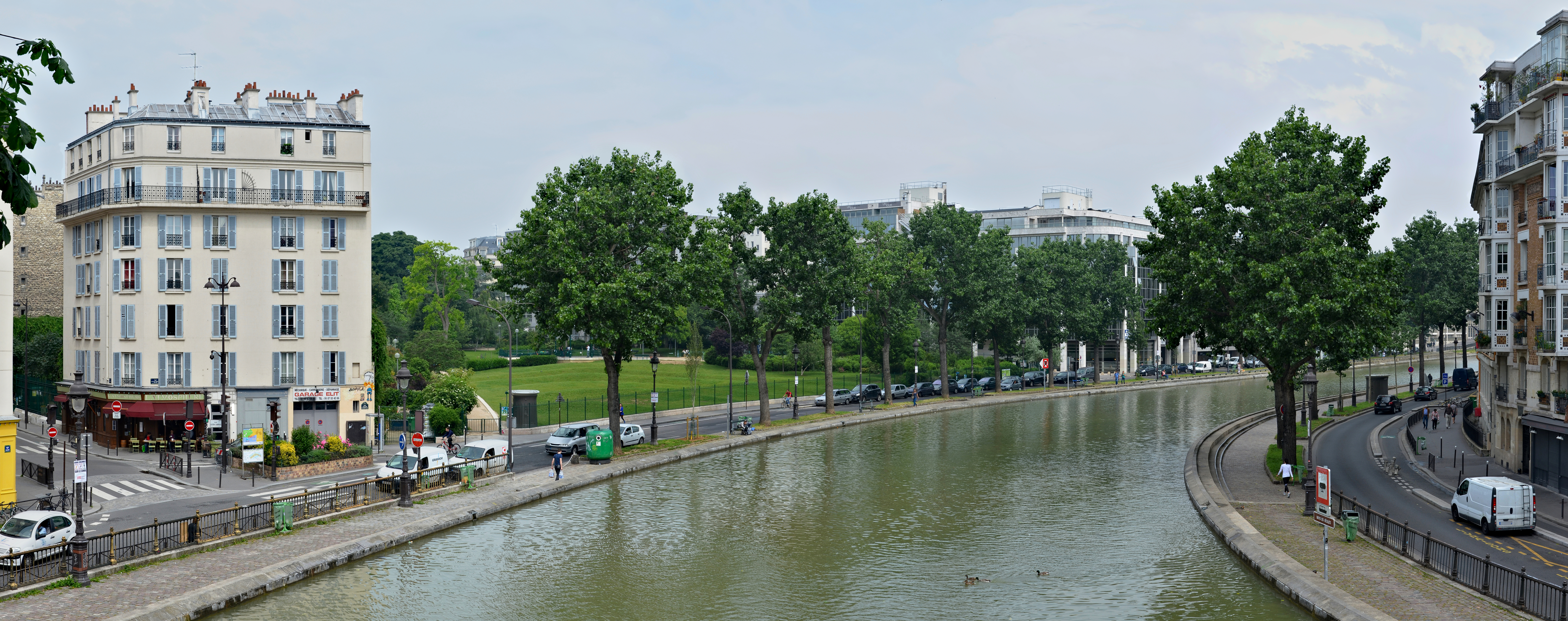 Canal Saint-Martin : bassin des Récollets as seen from passerelle Bichat, Paris, 10th arr., France.